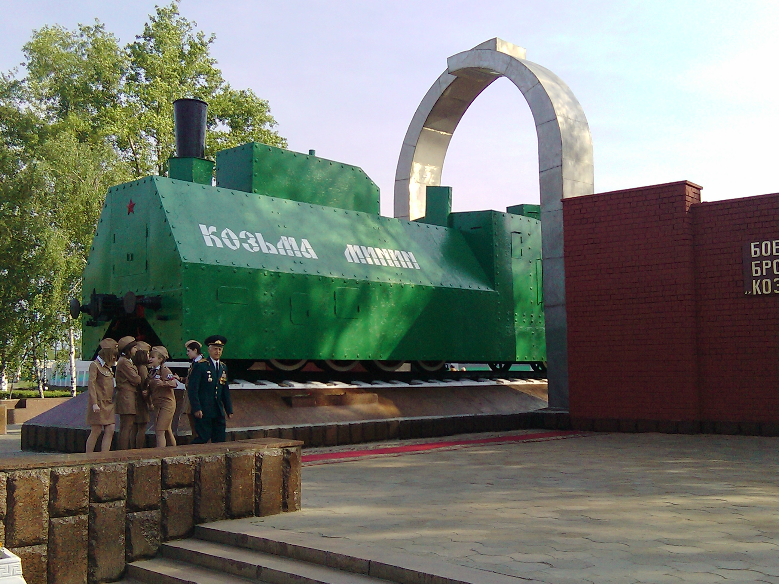 Russian armoured locomotive